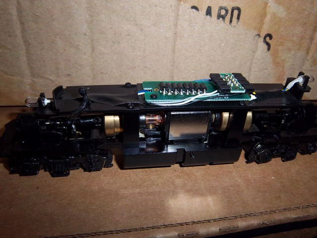 The second Version proto 2000 BL2 drive